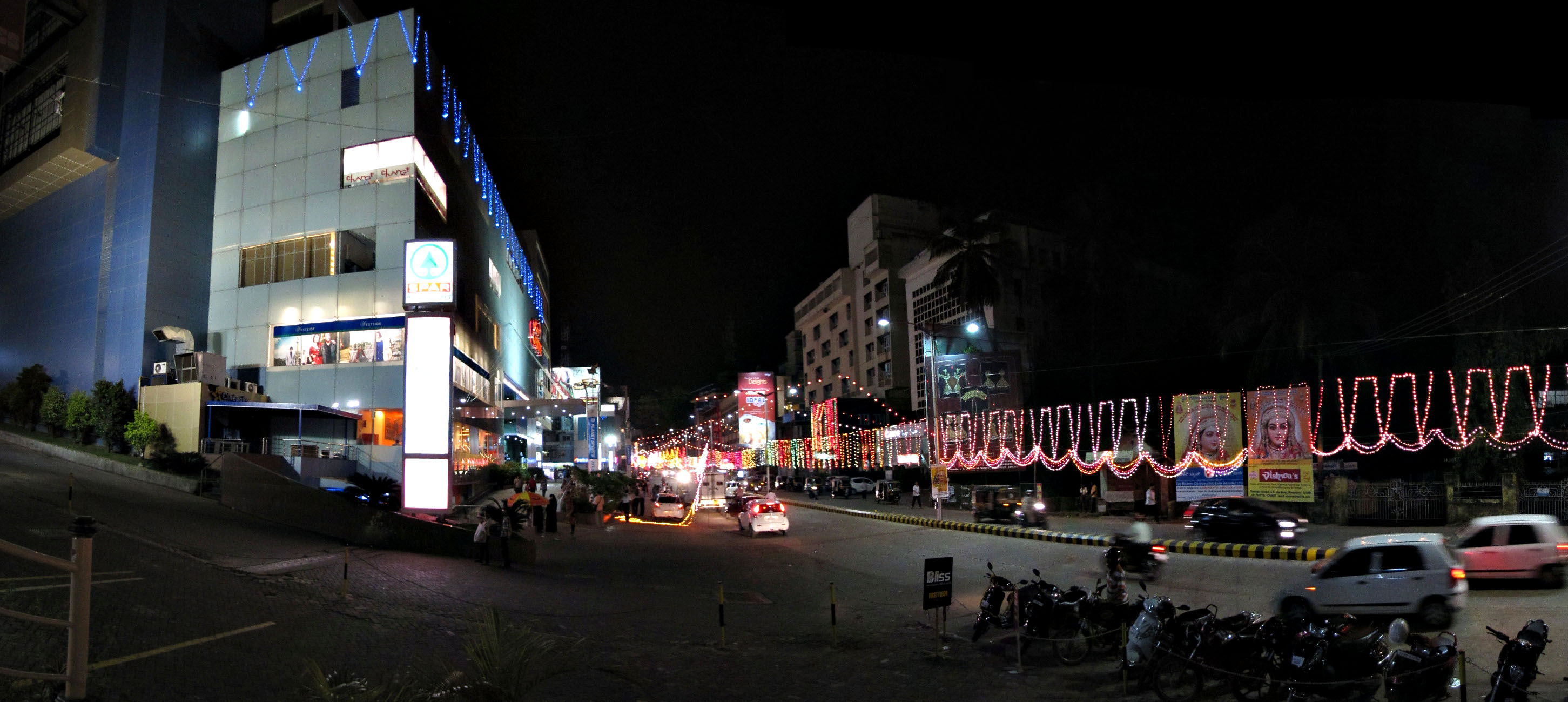 City Center Premises decorated during dasara festival in Mangalore